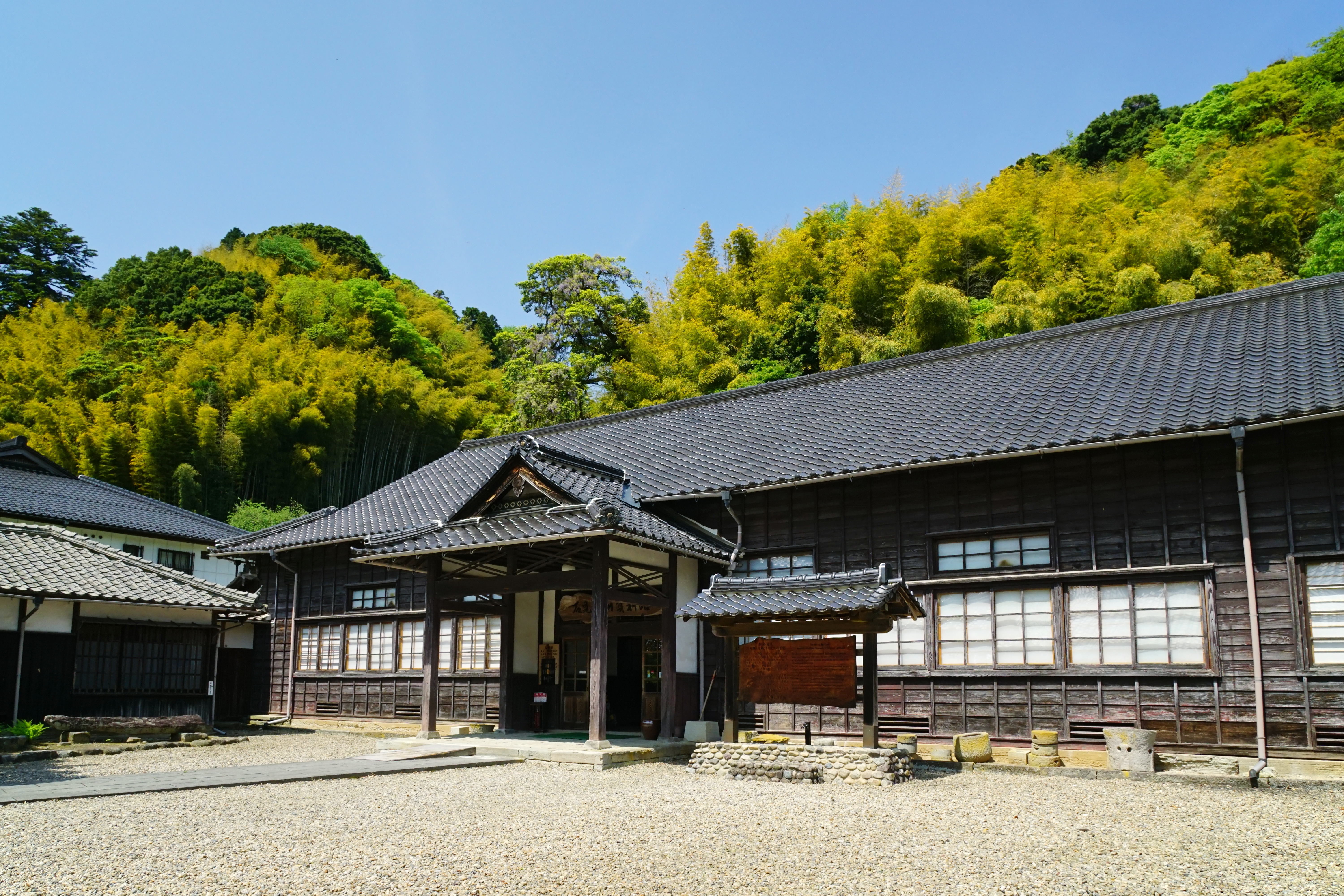 Iwami_Silver_Mine_Museum (Ruins of the Oomori prefectural governor's office) in Ōda, Shimane prefecture, Japan. It was registered as part of the UNESCO World Heritage Site "Iwami Ginzan Silver Mine and its Cultural Landscape".